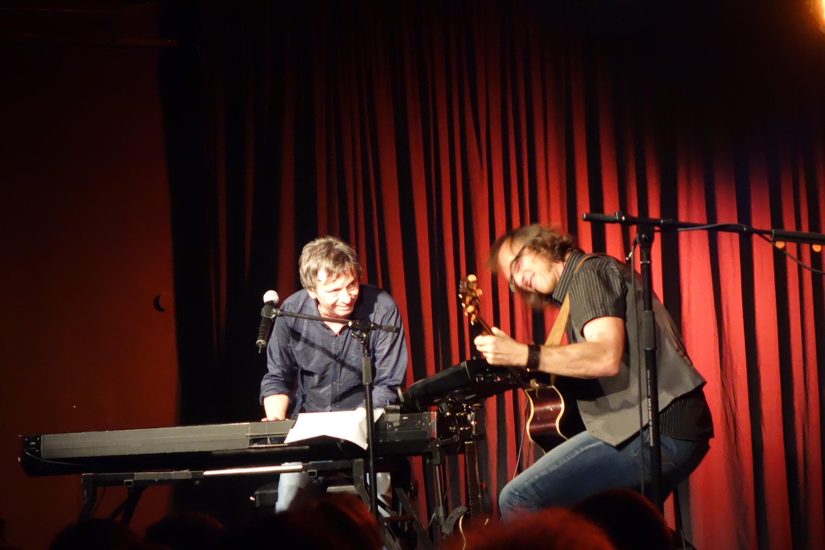 Purple Schulz & Schrader on stage in Q24 Pirna, October 2014